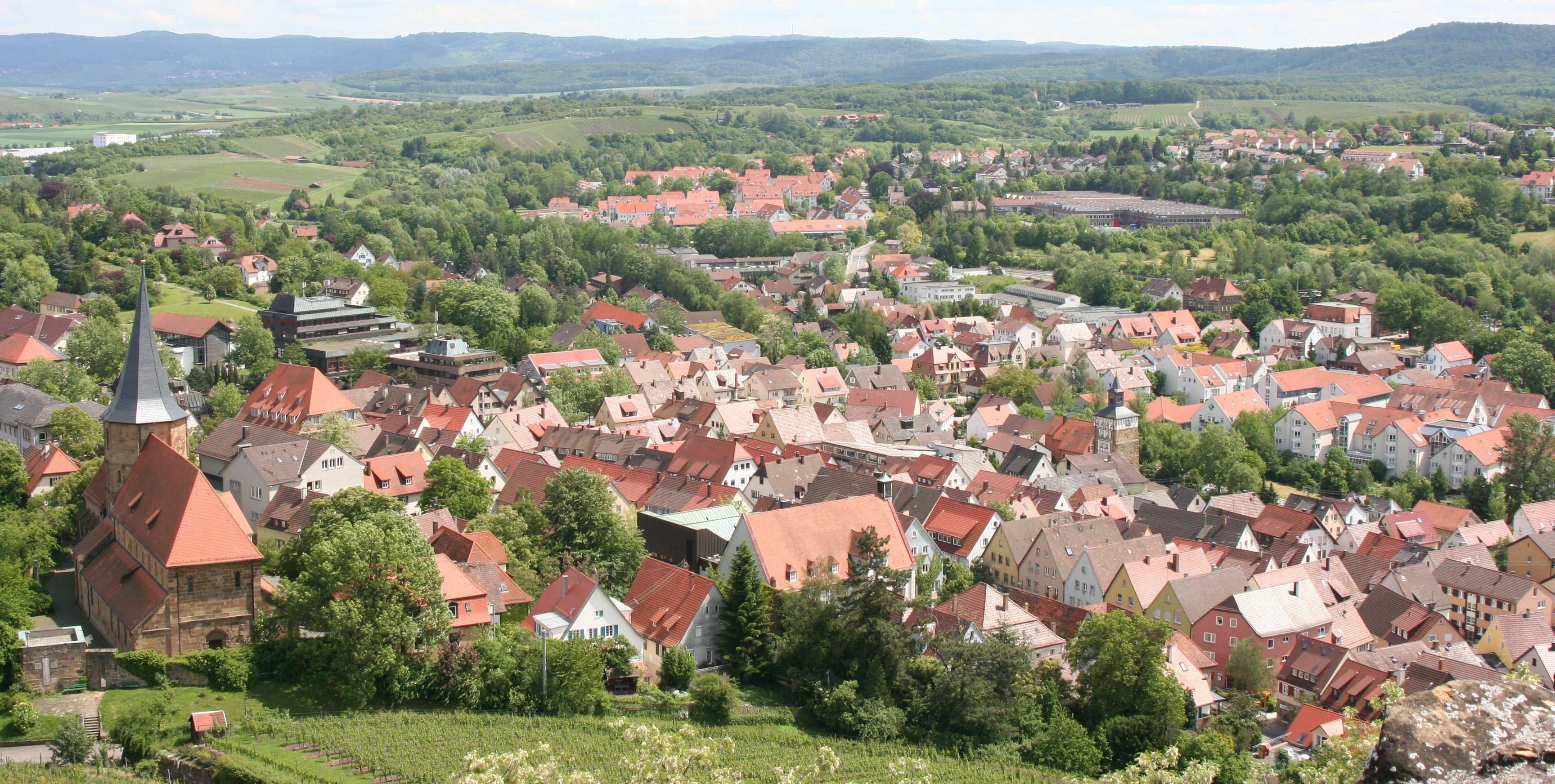 Weinsberg as seen from the Weibertreu castle ruin